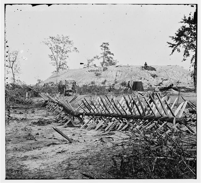 Confederate fortifications around Atlanta, Georgia, in 1864. The wagon and portable darkroom of photographer George N. Barnard is visible in the photograph.